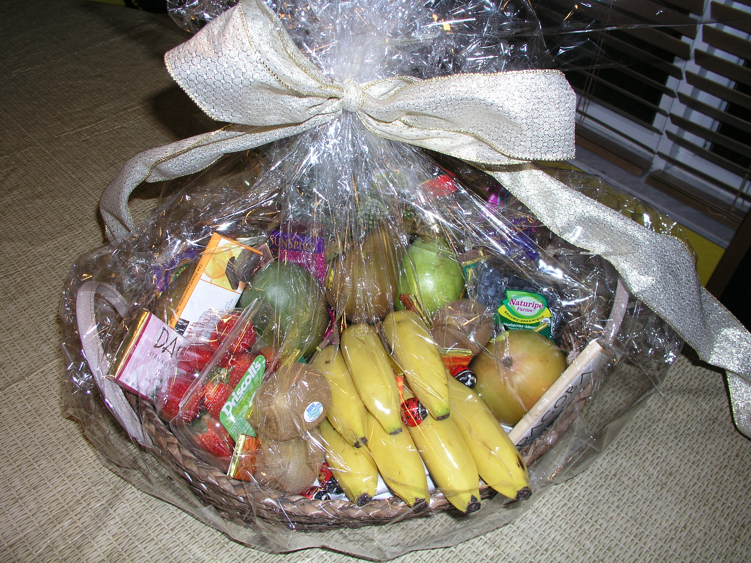 A gift basket containing fruit and other food items such as chocolate.